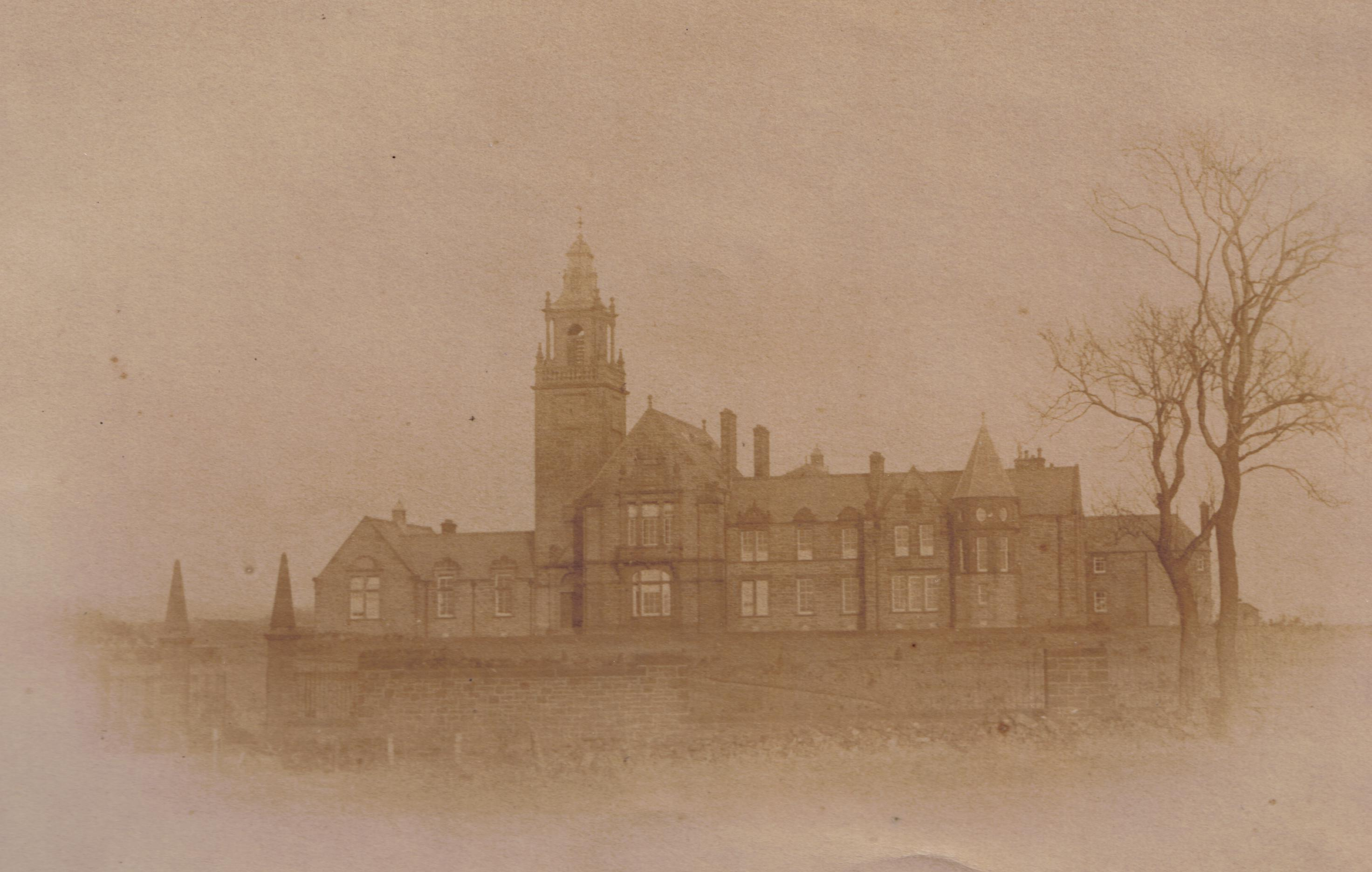 Speir's School, beith, North Ayrshire, Scotland.